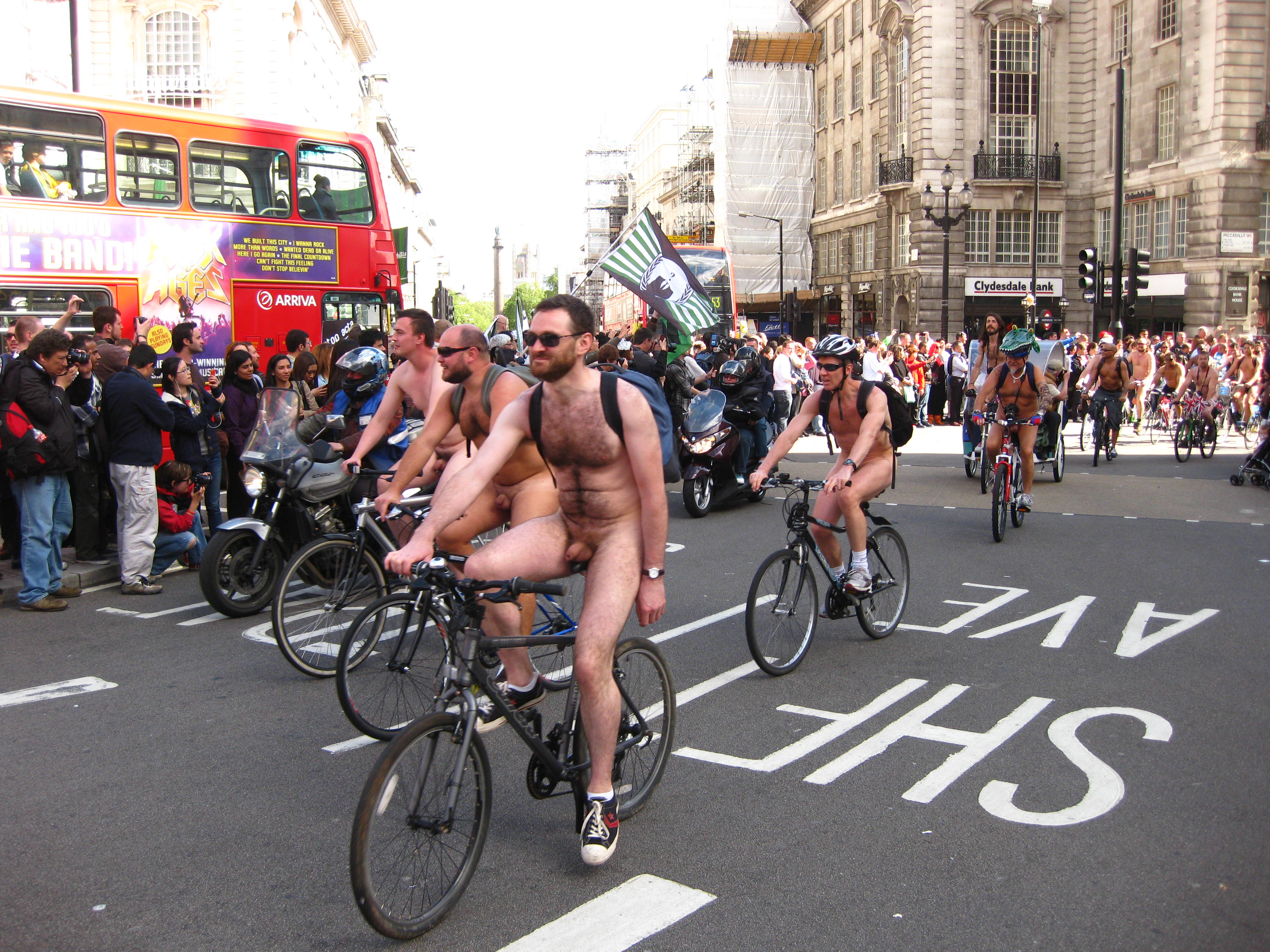 2012 World Naked Bike Ride, London